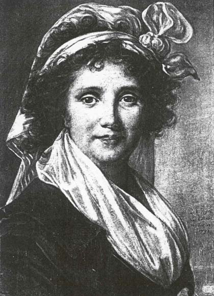 Portrait of Marguerite de Gourbillon, by Marie-Louise-Élisabeth Vigée-Lebrun.